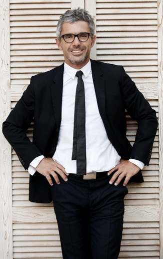 Picture of the french-lebanese jeweler - Shot 2